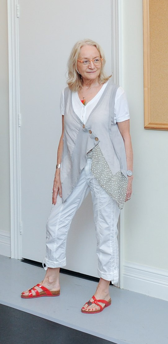 Rosemary Dunsmore